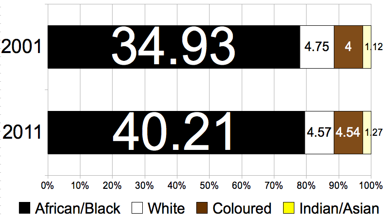 Ethnic groups of South Africa, in millions. Source: Statistics South Africa, Mid-year population estimates by population group, gender, age group and year, 2001-2011